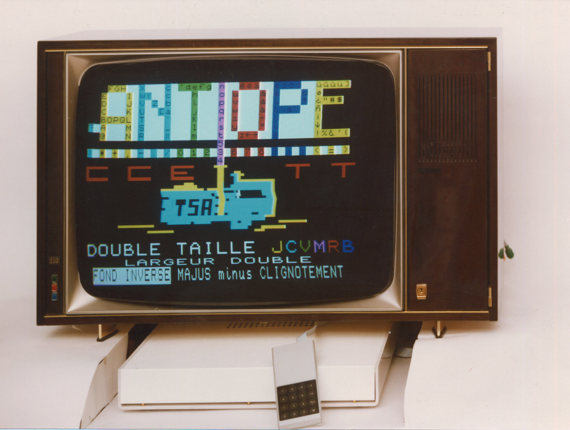 The Videotex standard illustrated on a Videotex page (Rennes, 1976)